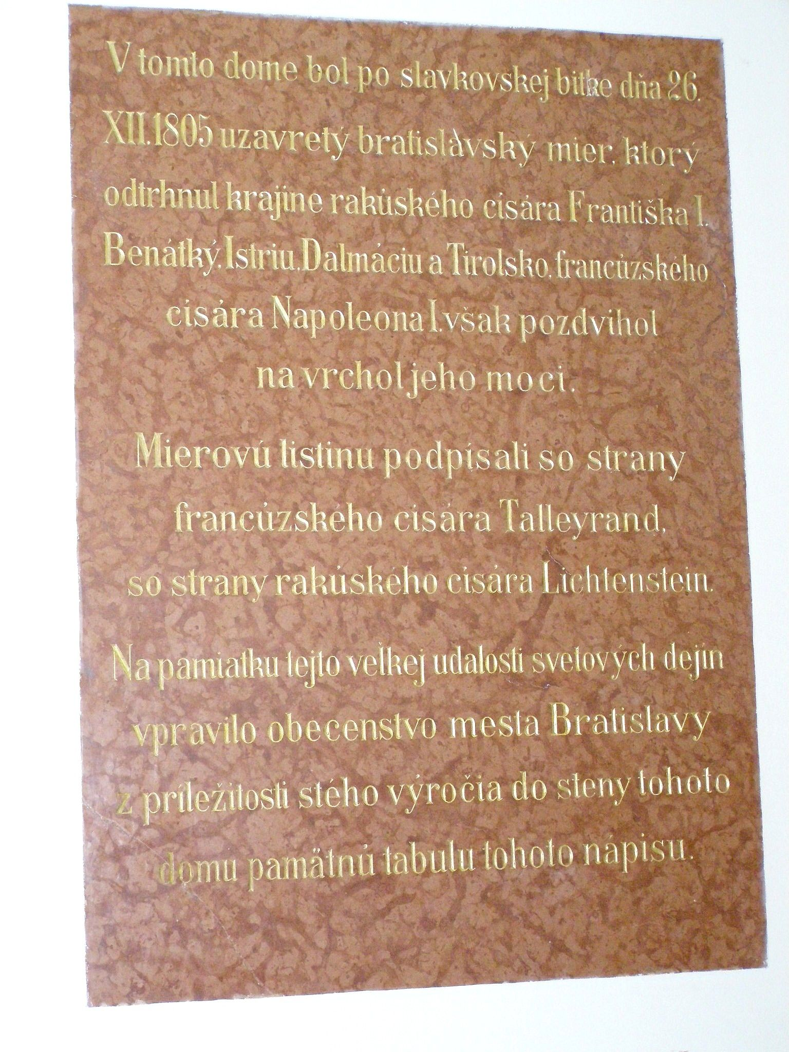 Memorial plaque of the peace treaty of Pressburg, signed by the French Empire and the Austrian Empire on the 26th december 1805 in the in the Primas Palace in Pressburg (today Bratislava, Slovakia).